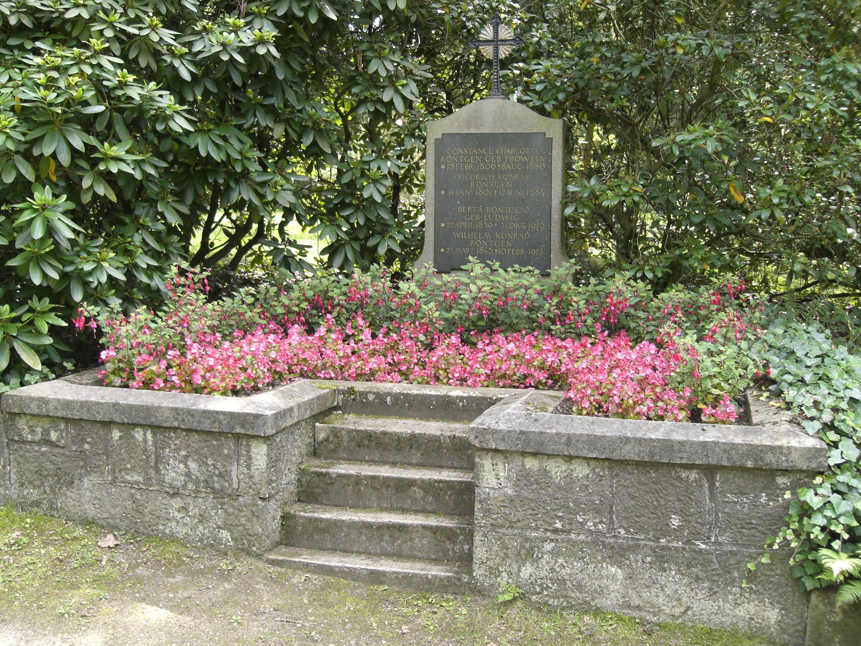 Grave of the Röntgen family (among them Wilhelm Conrad Röntgen) at Alter Friedhof (old cemetery) in Giessen, Hesse, Germany